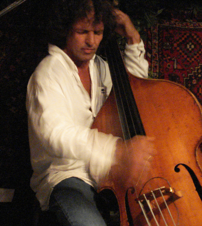 Harry Emmery playing double bass